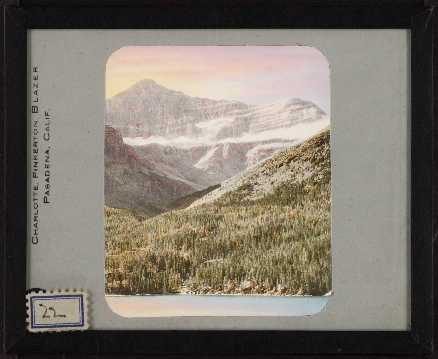 Author/Creator: McClintock, Walter, 1870-1949. Blazer, Charlotte Pinkerton. Date: undated Part of: Walter McClintock papers, 1874-1946. Physical Description: 1 lantern slide hand col. 8 x 10 cm. Folder or box number: Lantern slides box 1 Subjects: Indians of North America. Siksika Indians. Montana. Genre/Form: Lantern slides Cite as: Yale Collection of Western Americana, Beinecke Rare Book and Manuscript Library Repository: Beinecke Rare Book and Manuscript Library, Yale University Bibliographic Record Number: 2008369 Call Number: WA MSS S-1175 View our Record: Permalink